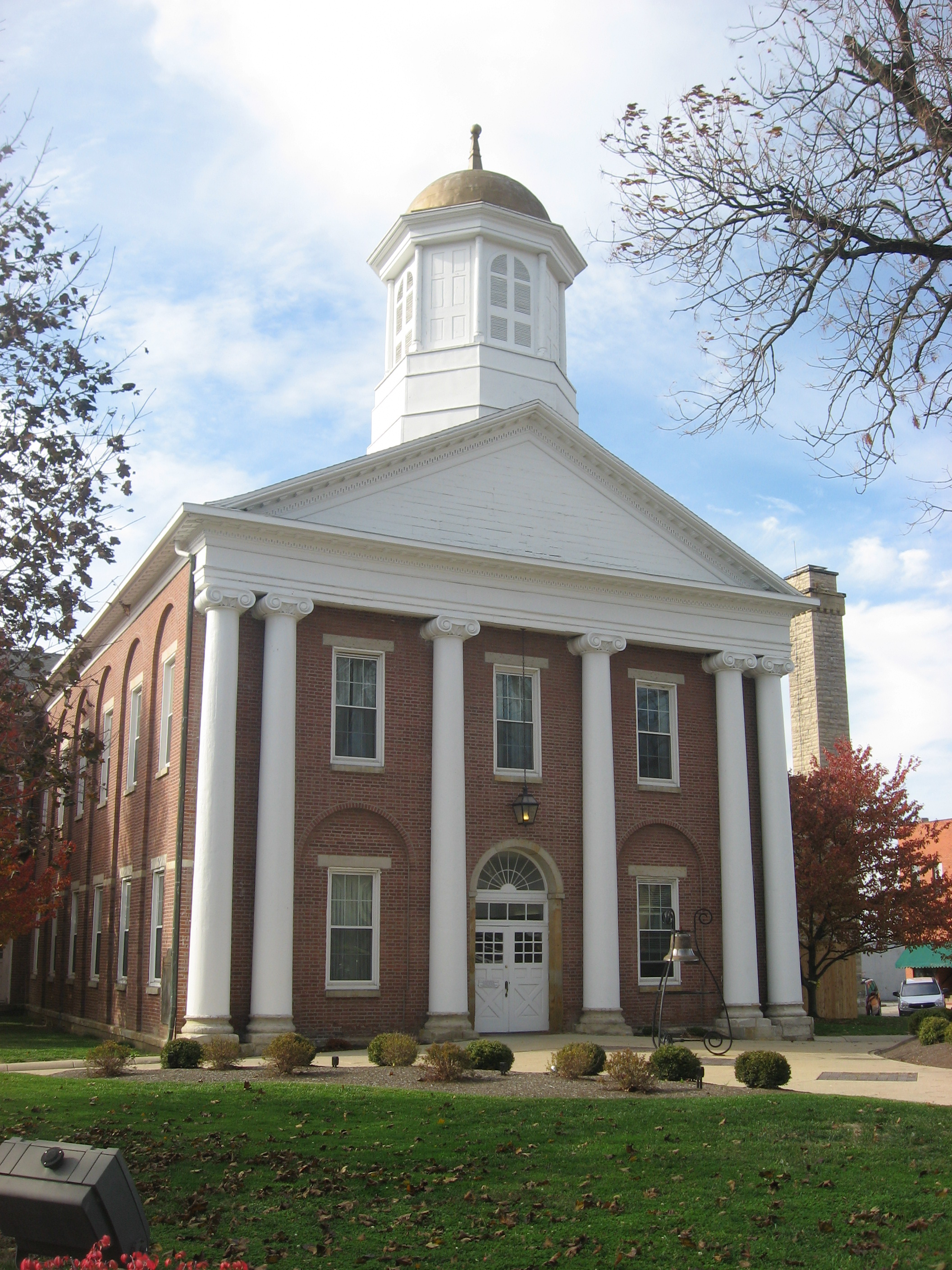 Front of the Highland County Courthouse, located on Courthouse Square at the junction of Main (U.S. Route 50 and State Routes 73/124) and High (U.S. Route 62 and State Route 138) in downtown Hillsboro, Ohio, United States. Built in 1833, it is Ohio's oldest continually operating courthouse; it is listed on the National Register of Historic Places, and it is part of a Register-listed historic district, the Hillsboro Historic Business District.